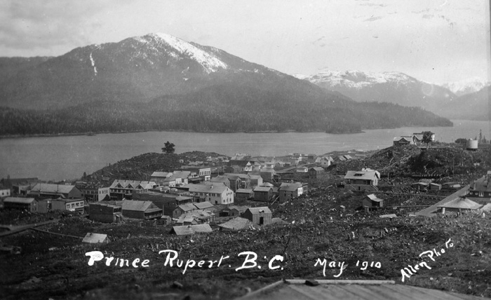 Prince Rupert, B.C., Canada, May 1910. Looking north toward Mount Morse. This photo was donated to Wikipedia courtesy of the Prince Rupert City & Regional Archives [1], under the Creative Commons Attribution-ShareAlike 2.5 license.